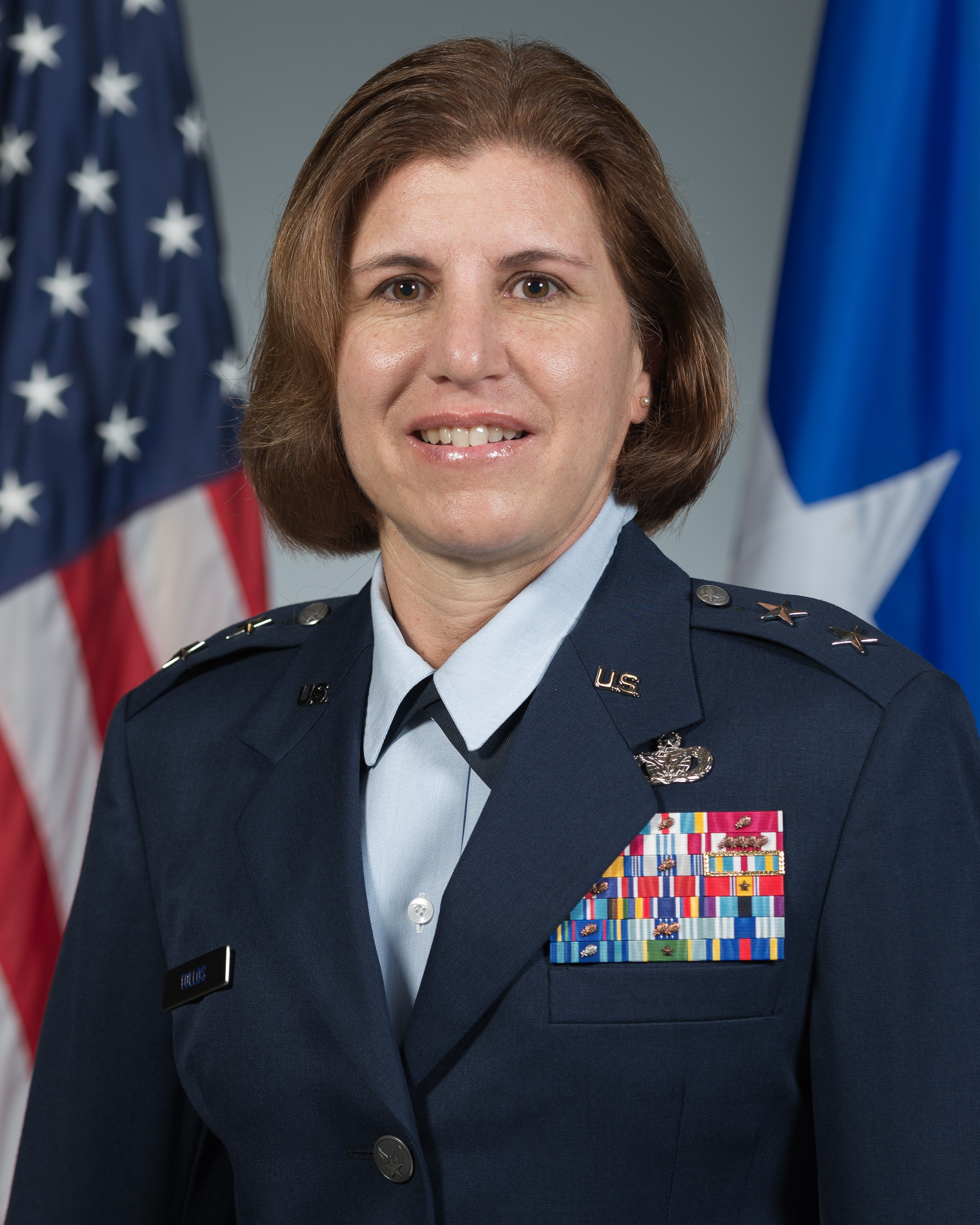 US Air Force Major General Andrea D. Tullos, Commander, Second Air Force